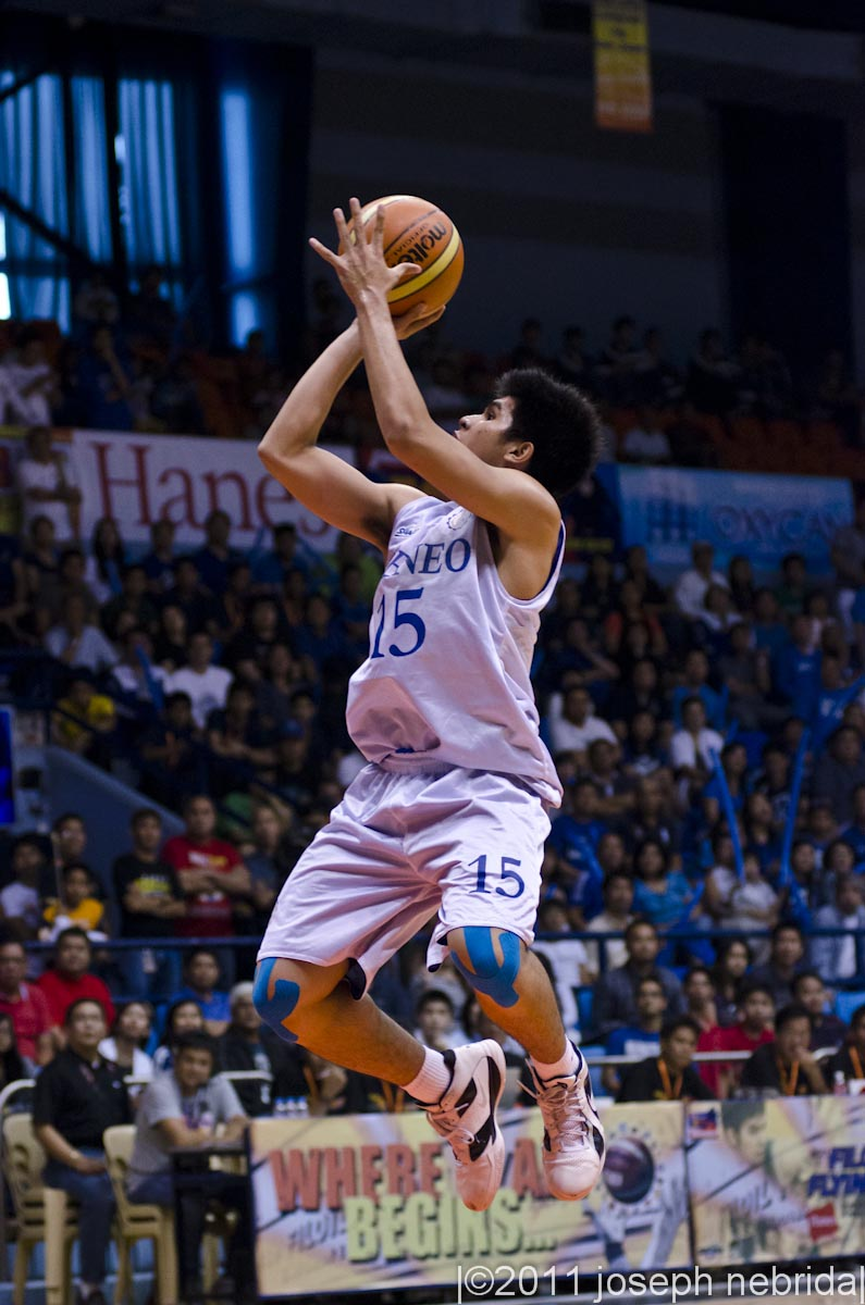 2011 FilOil Flying V Preseason Tournament: Ateneo Blue Eagles vs. San Beda Red Lions, Opening Day